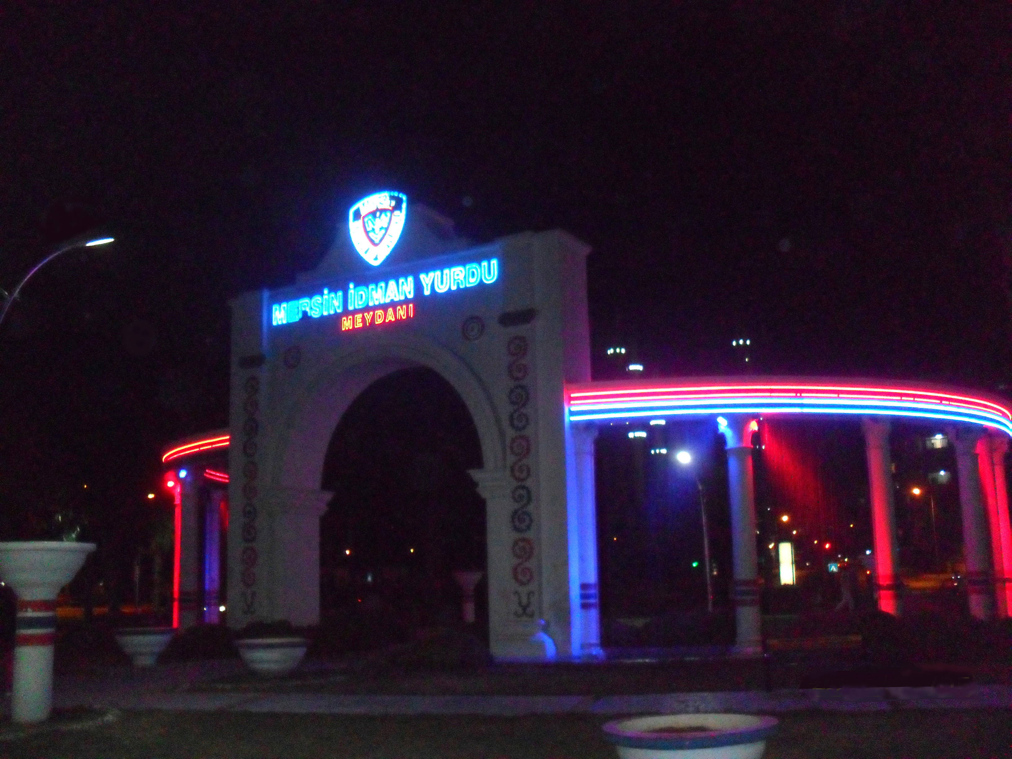 A night image of Mersin İdmanyurdu park a part of Mersin coastal park reserved for Mersin İdmanyurdu